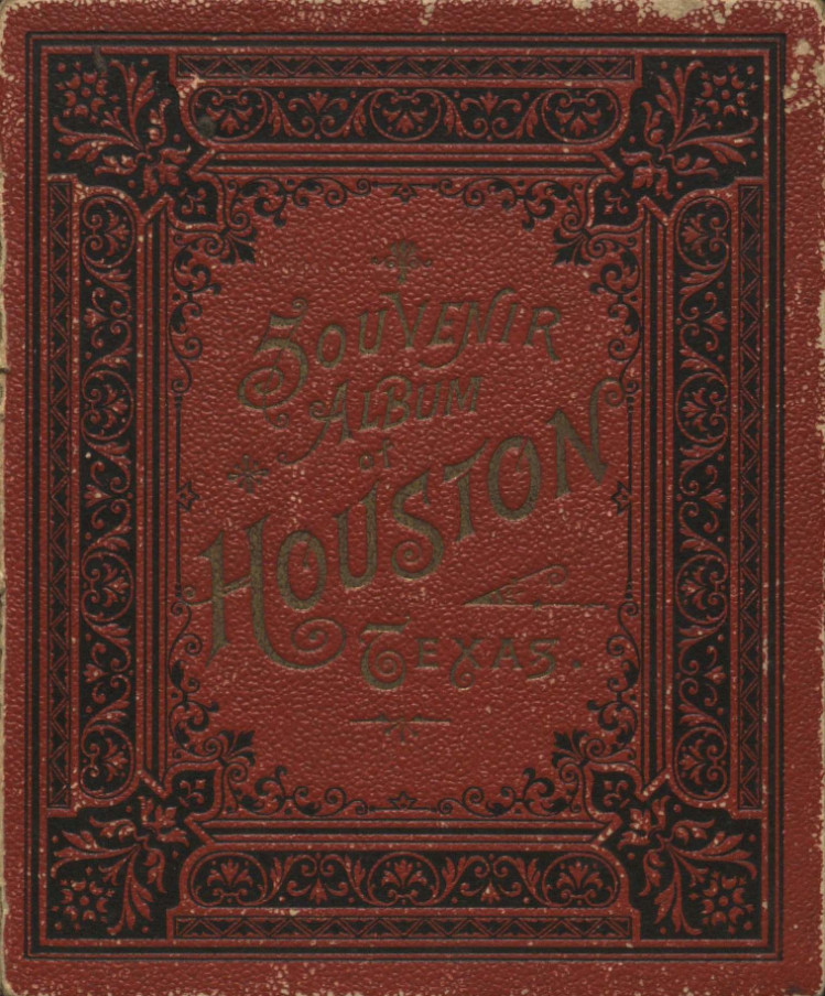 Twelve page pamphlet, published in 1891, includes 35 illustrations of prominent buildings in Houston Texas.